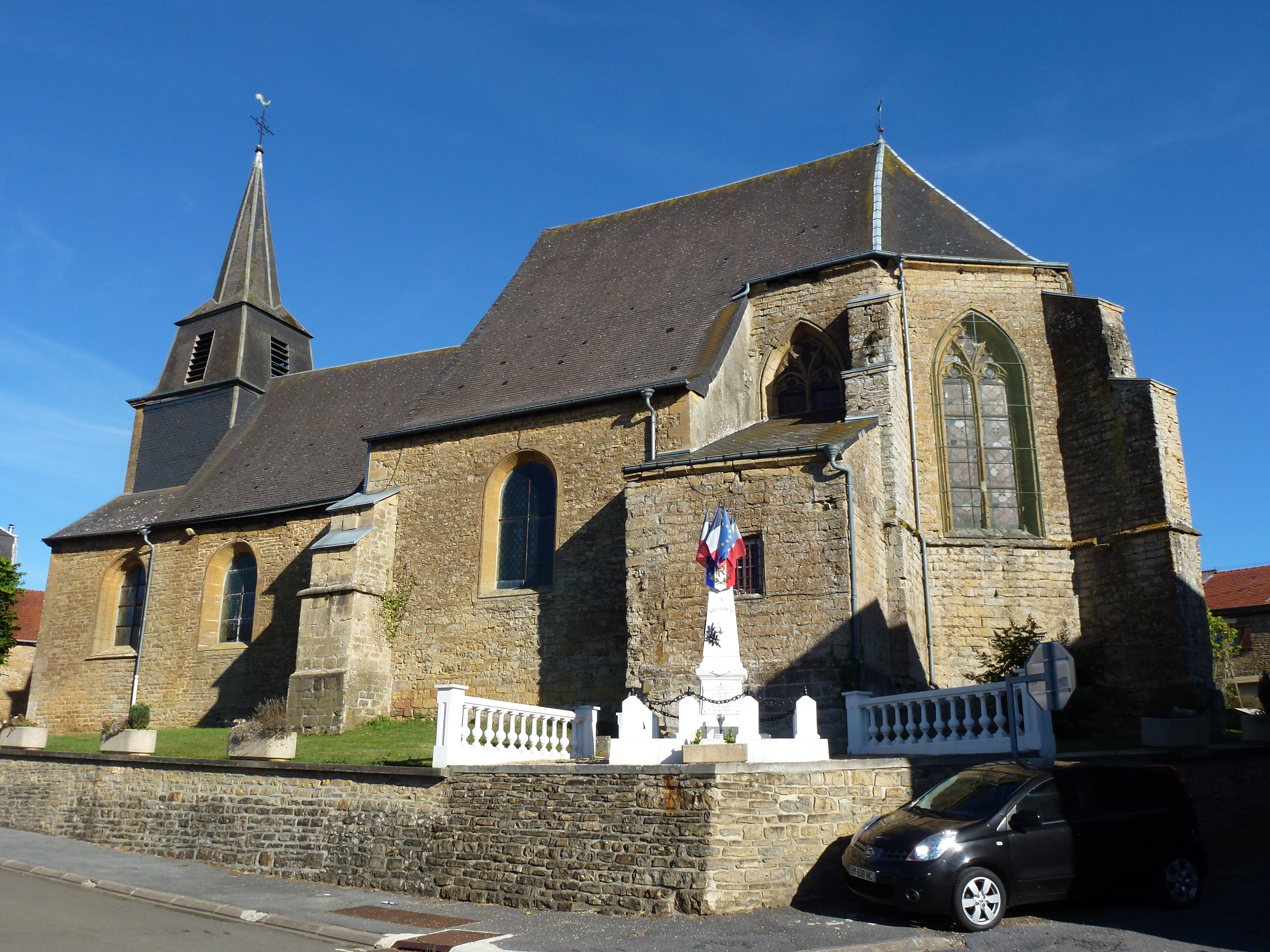 Sormonne (Ardennes) église et monument aux morts